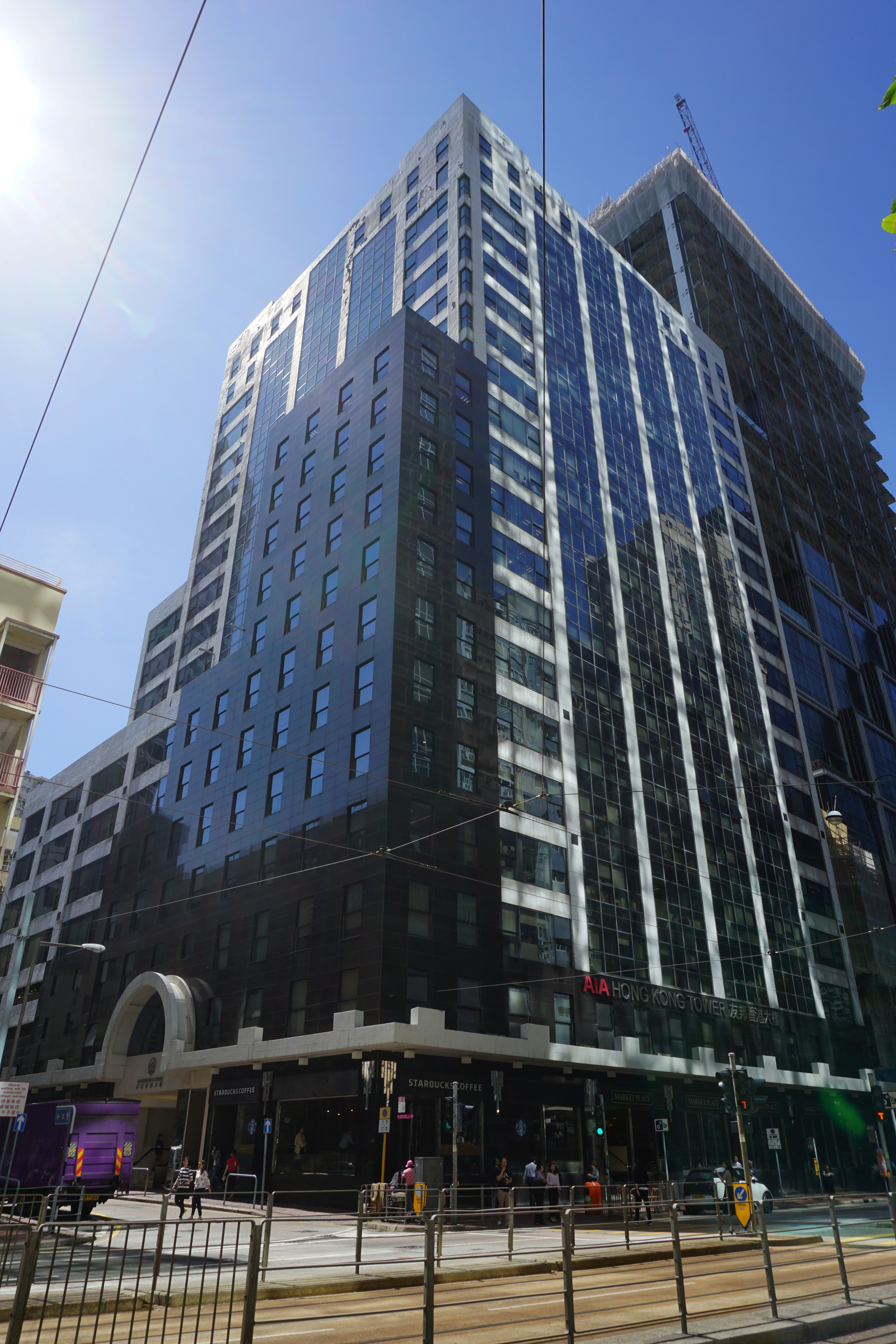 AIA Hong Kong Tower in Quarry Bay, Hong Kong.